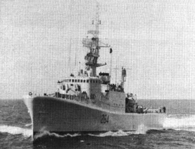 The Canadian destroyer HMCS Qu'Appelle (DDE 264), circa 1972. Qu'Appelle was taking part in an anti-submarine exercise in the Pacific with units from the United States, Canada, New Zealand and Australia.